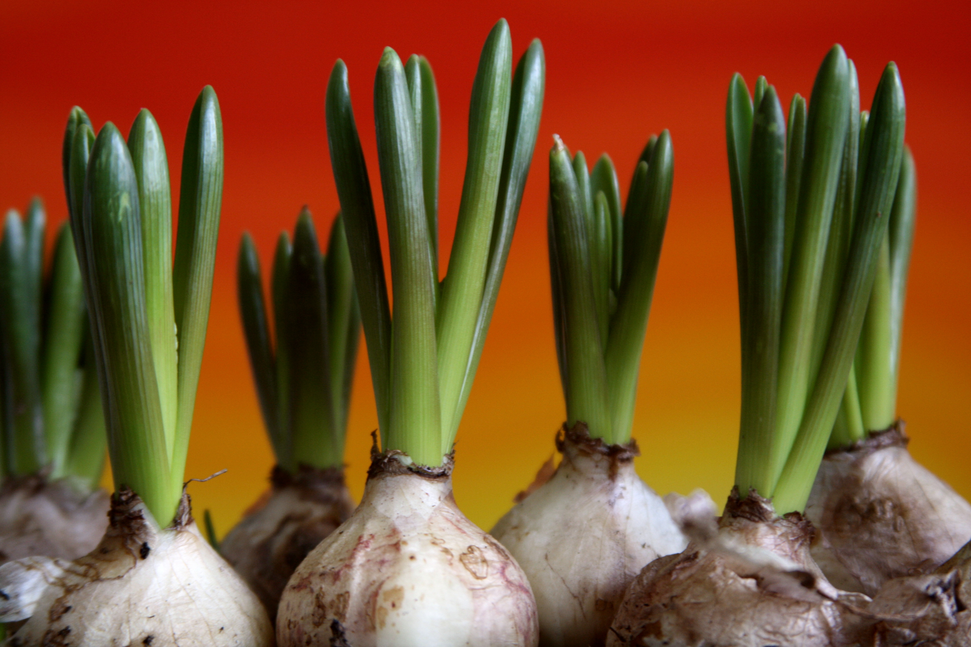 bulbs